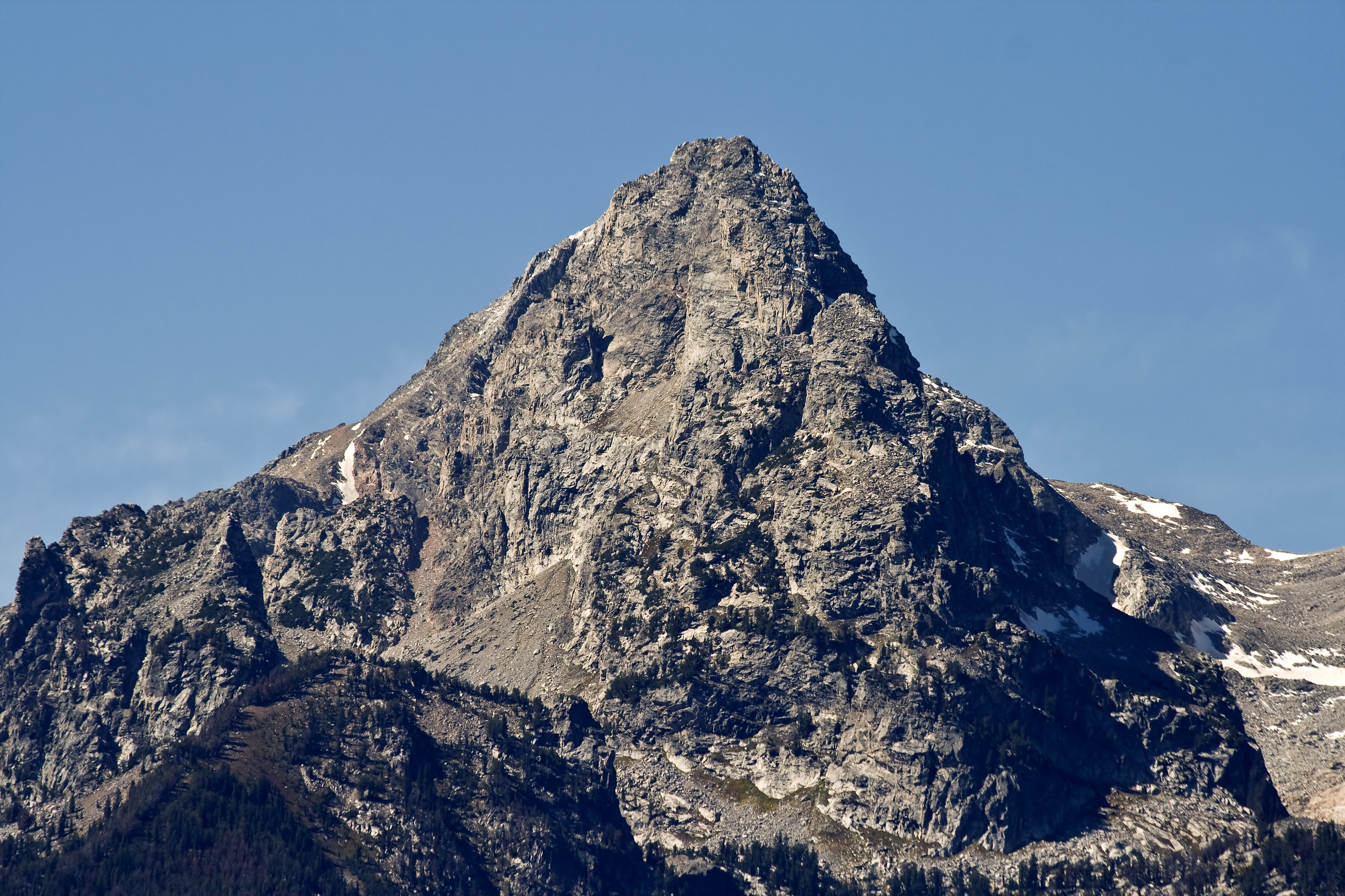 South Teton in Grand Teton National Park, Wyoming, USA. Image taken from the Teton Point turnout.